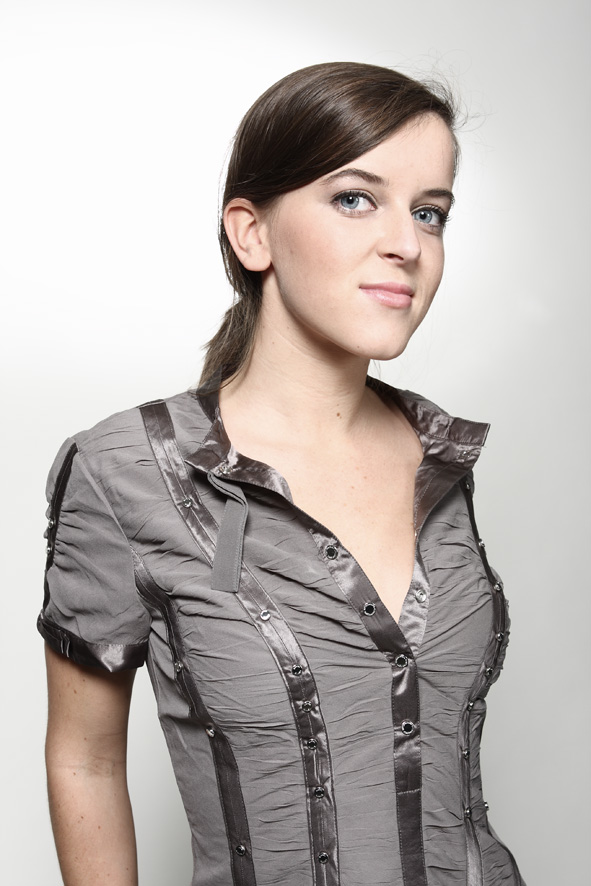 Laurien Van den Broeck (Februari 29, 1988) is a Flemish actress.